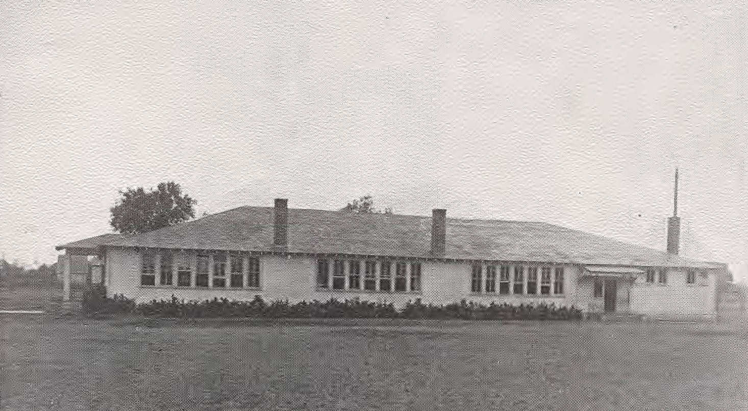 The Training School on the campus of East Texas State Normal College.